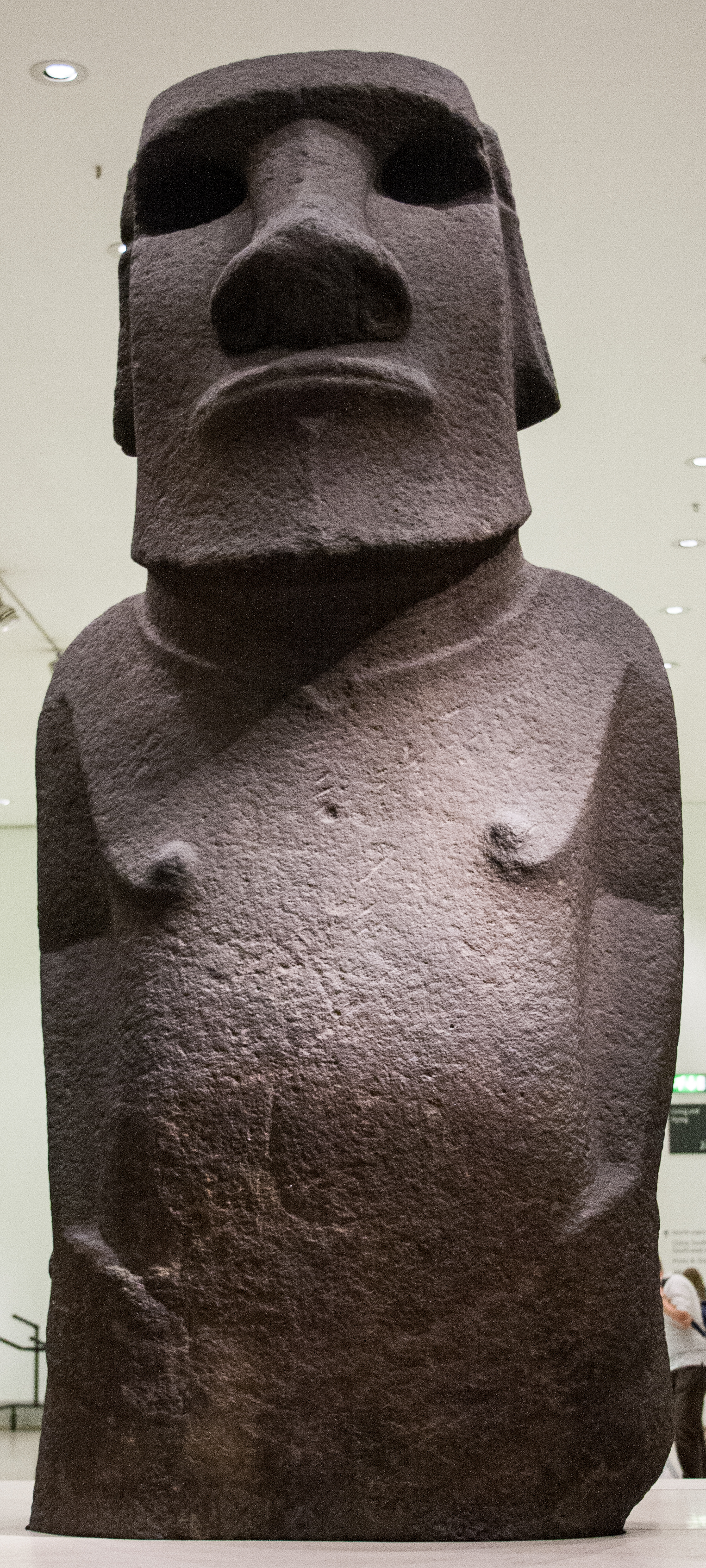 Front view of moai statue made of basalt, called Hoa Hakananai'a ("Stolen or Hidden Friend"), from Orongo, Easter Island (Rapa Nui), Polynesia. British Museum (Oc1869,1005.1).